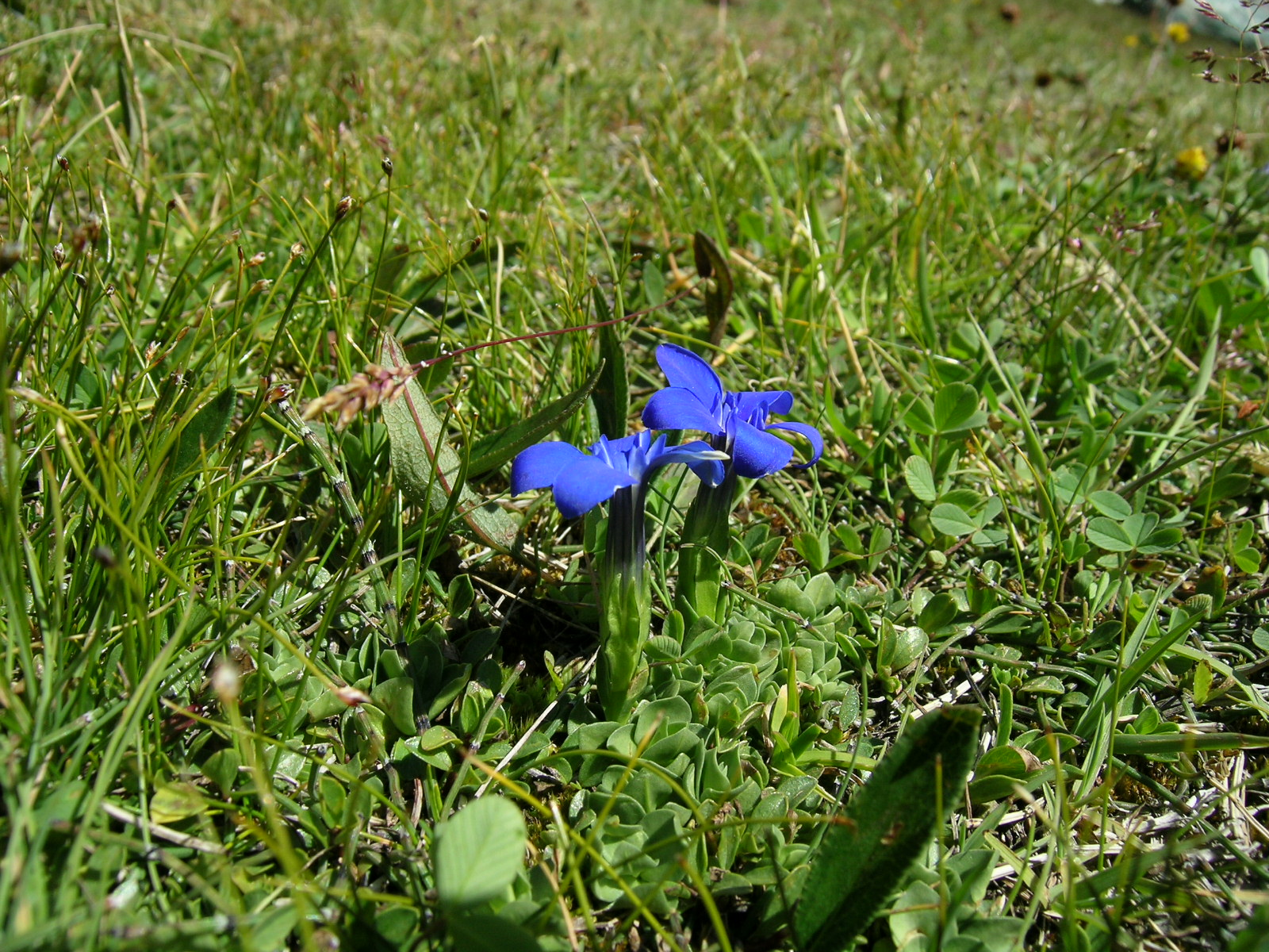 Gentiana brachyphylla Zermatt, beneath Gornergrat (Kanton Wallis, Switzerland), 2800 m Author: Roland Teuscher – own photograph Date: 2.08.06